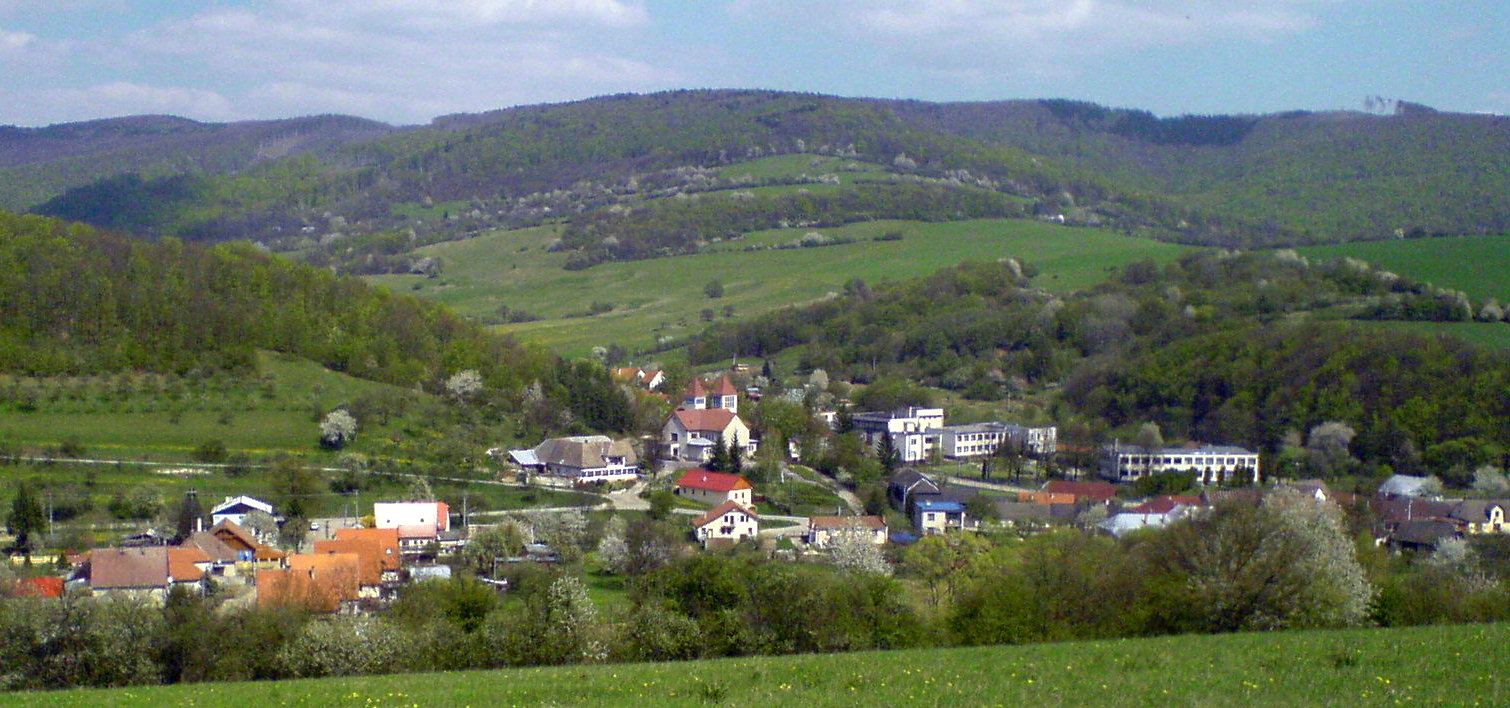 A view of the centre of Nova Bosaca